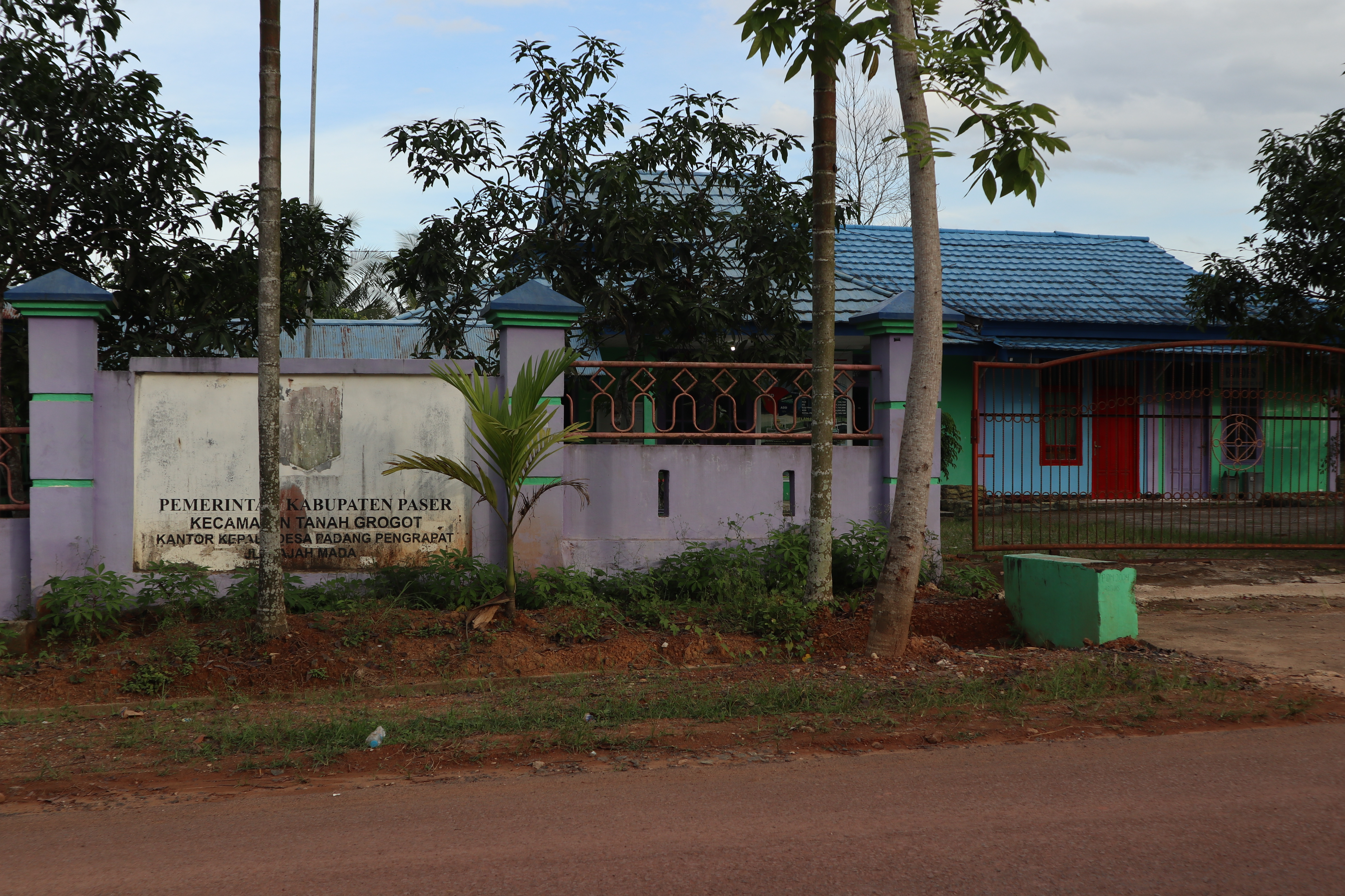 Padang Pengrapat village office in Tanah Grogot subdistrict, Paser Regency, East Kalimantan, Indonesia.